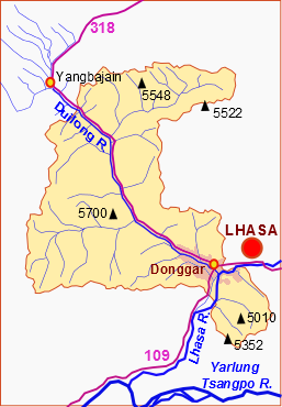 Sketch map of Doilungdêqên County, Lhasa, Tibet Autonomous Region